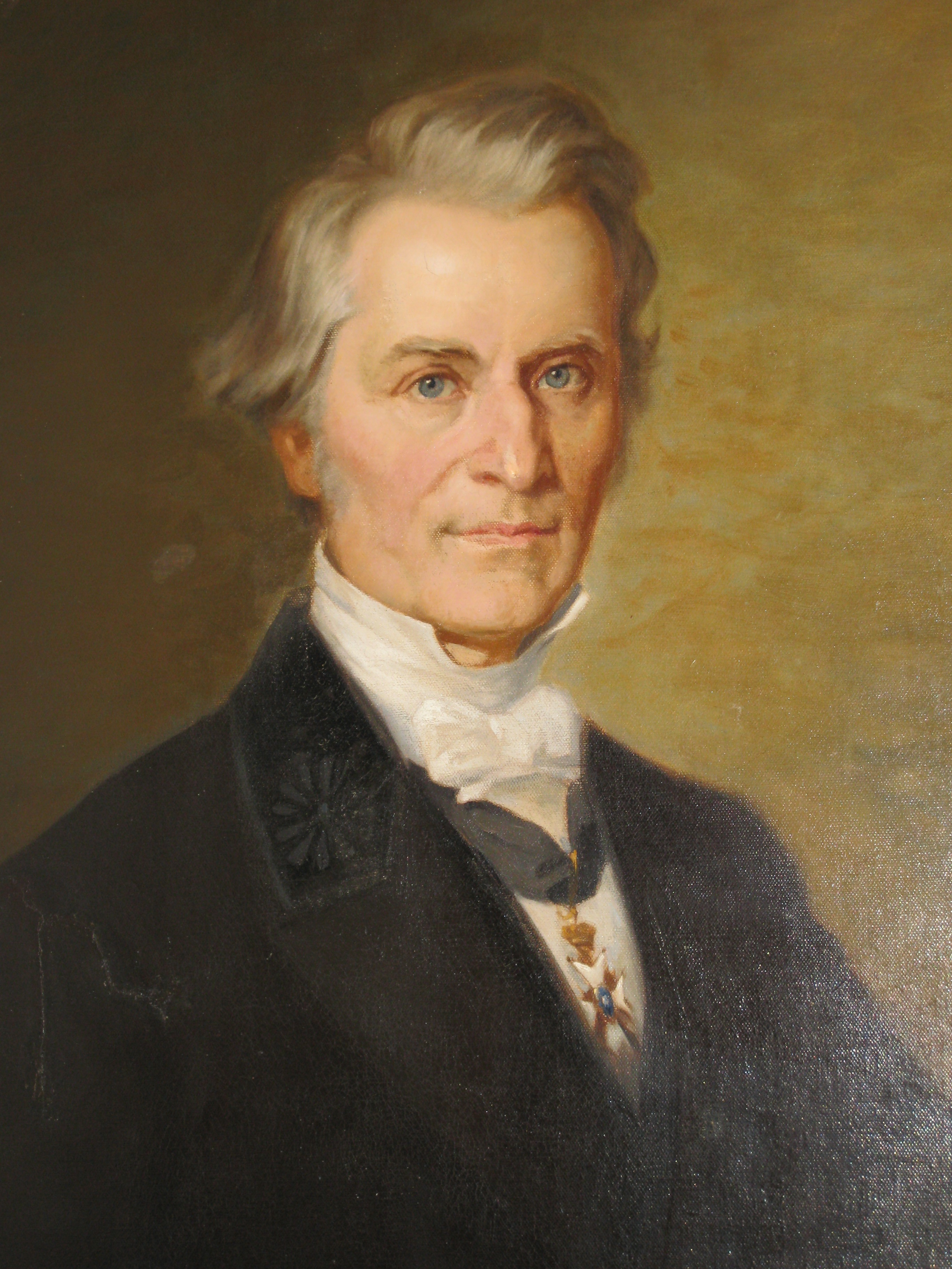 Anders Retzius (1796-1860). Copy by Jean Haagen (1868-1938), probably a copy of unknown original.